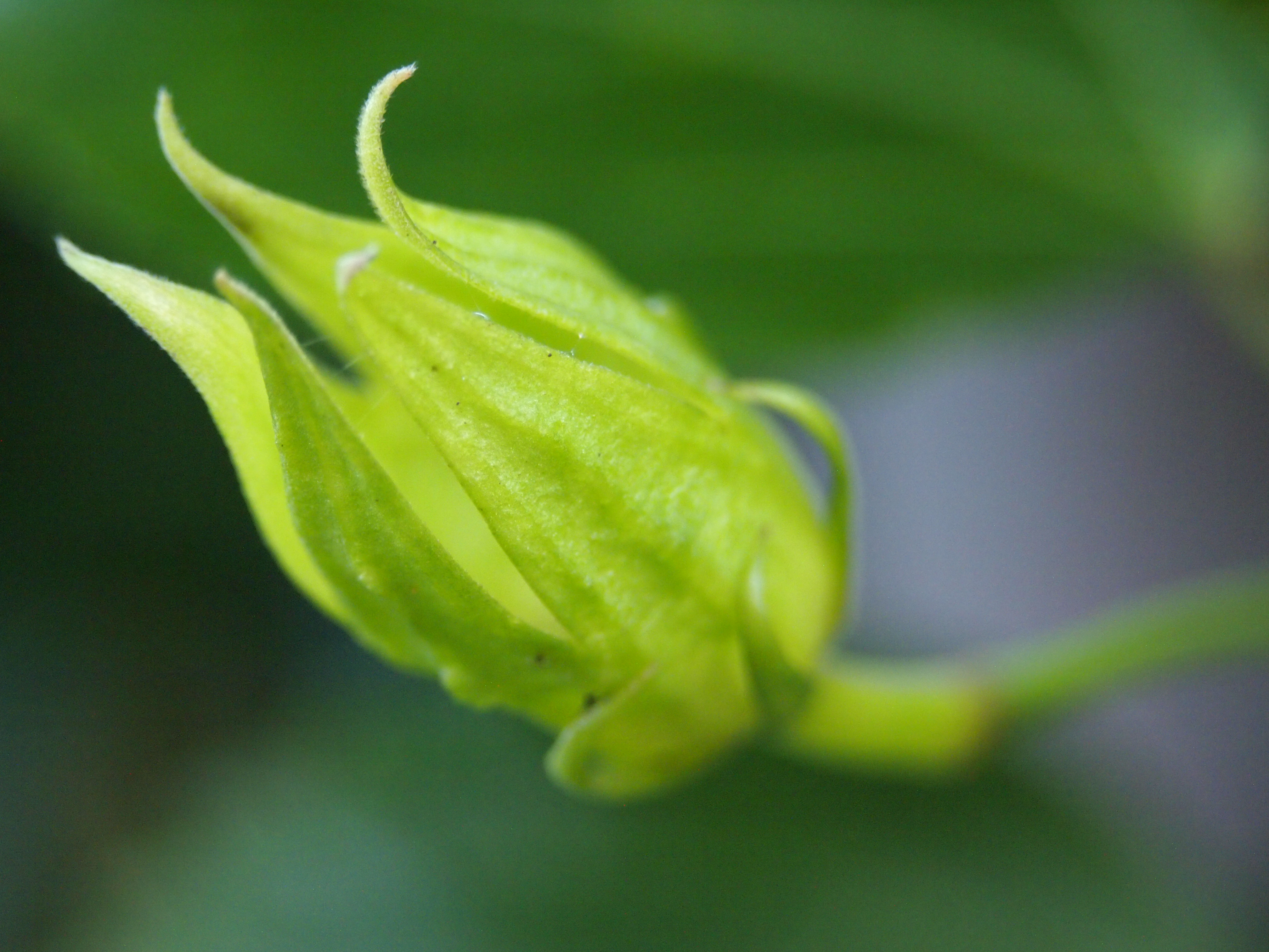 Hibiscus bud post-bloom (after the flower falls off) in Malaysia